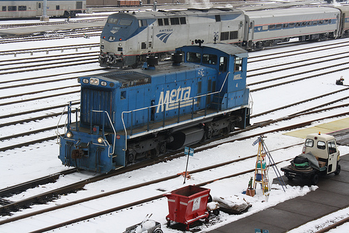 Nirc 4, an EMD SW1500 prepares to perform switching duties near Chicago Union Station.